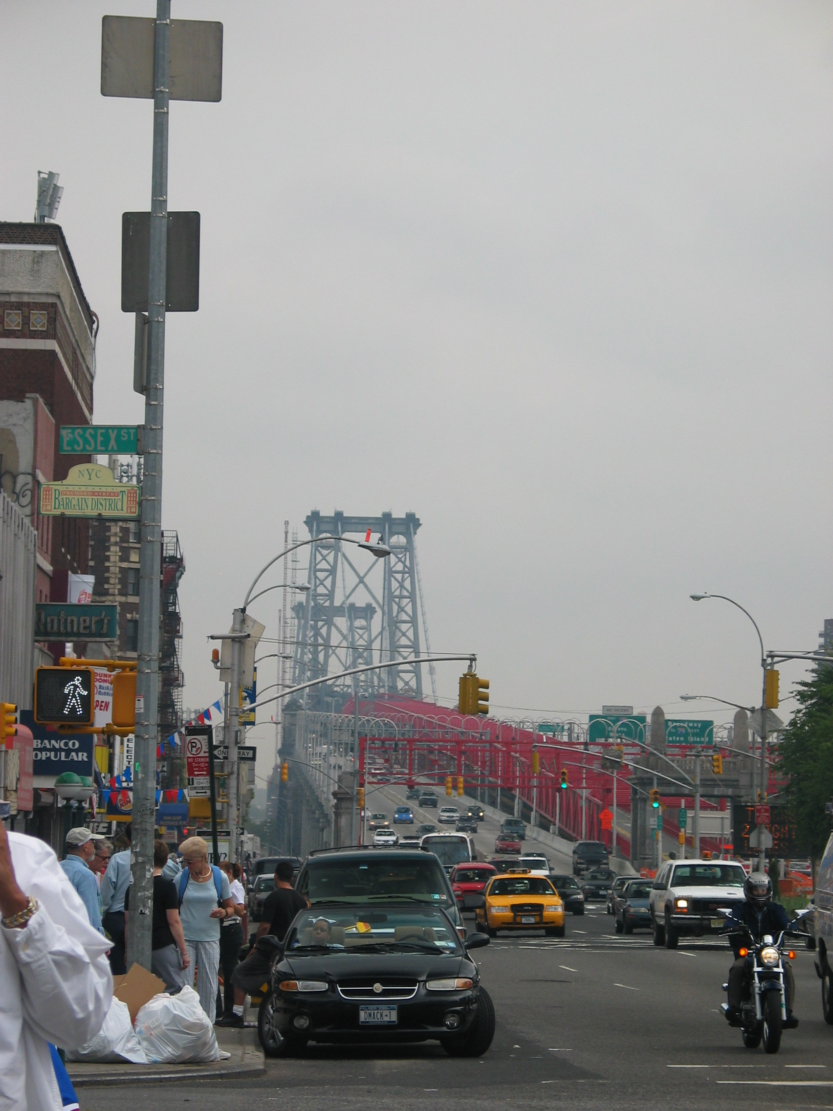 Williamsburg Bridge seen from west near Essex St. in Manhattan, New York City.